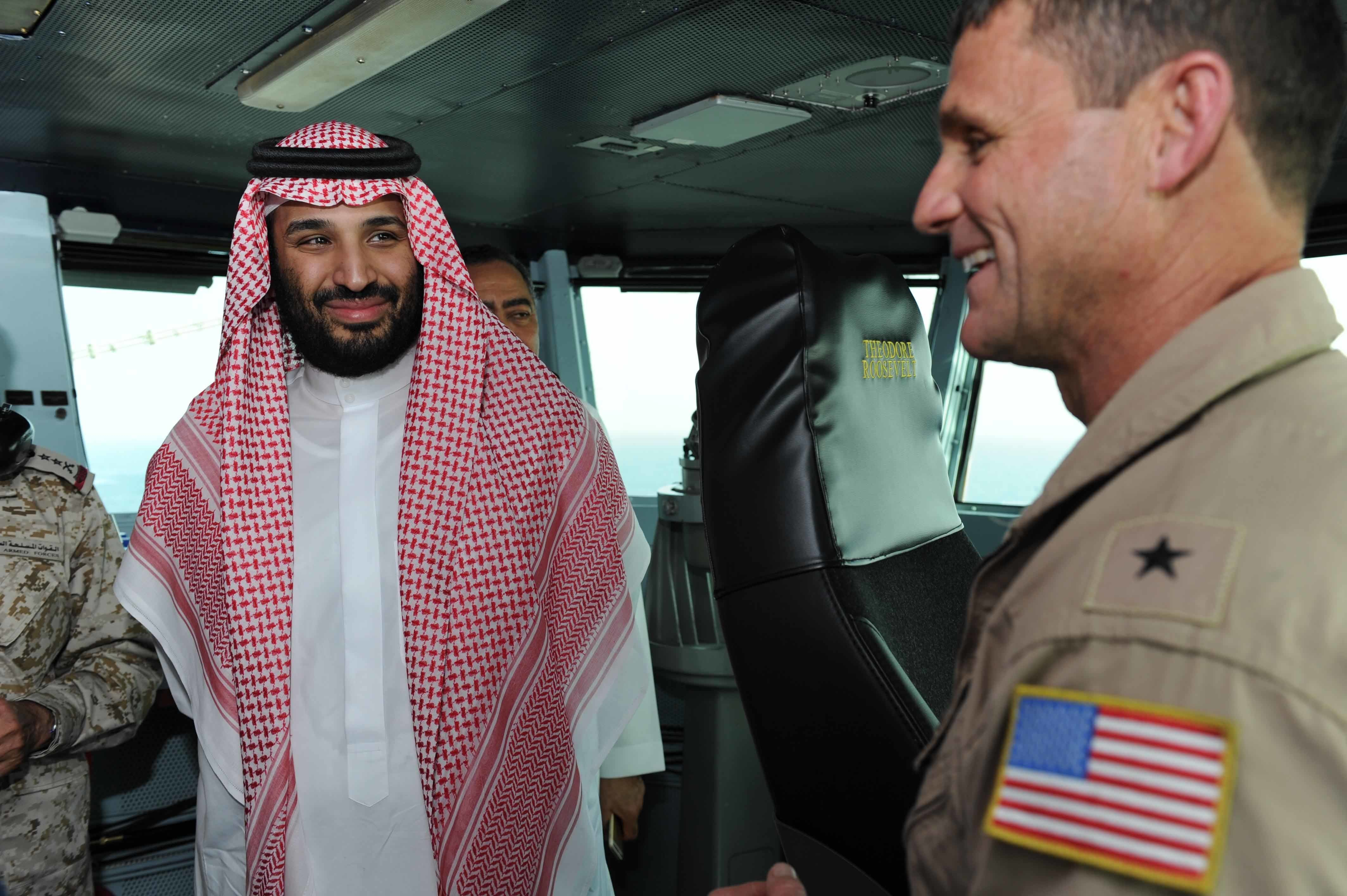 150707-N-GR120-011 ARABIAN GULF – His Royal Highness Prince Mohammed bin Salman bin Abdulaziz Al Saud, Second Deputy Premier, Deputy Crown Prince, Minister of Defense Kingdom of Saudi Arabia speaks with Rear Adm. Andrew Lewis, commander of Carrier Strike Group 12, aboard the aircraft carrier USS Theodore Roosevelt. Theodore Roosevelt is deployed in the U.S. 5th Fleet area of operations supporting Operation Inherent Resolve, strike operations in Iraq and Syria as directed, maritime security operations and theater security cooperation efforts in the region.